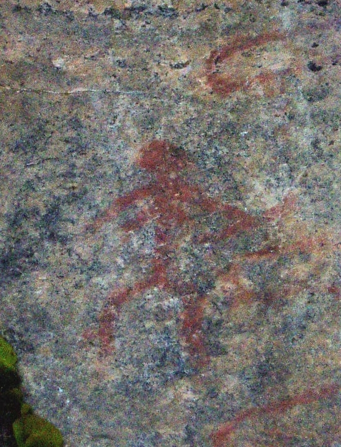 Astuvansalmi prehistoric rock paintings in Ristiina, Finland